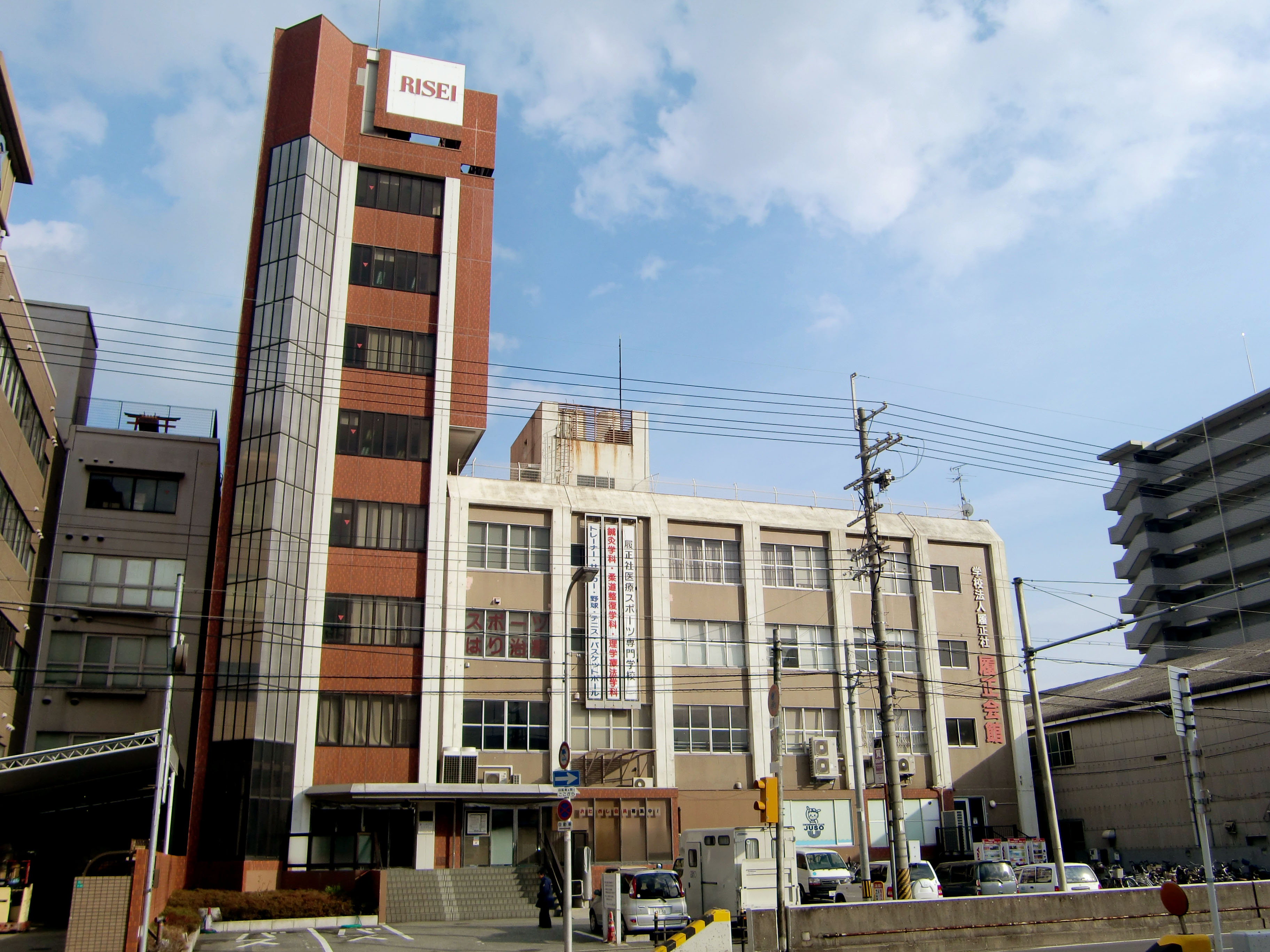 Riseikaikan,3-4-21 Juso-Honmachi Yodogawa-ku Osaka-City Osaka Japan.